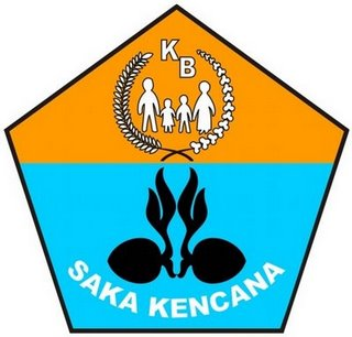 logo of saka bhaya